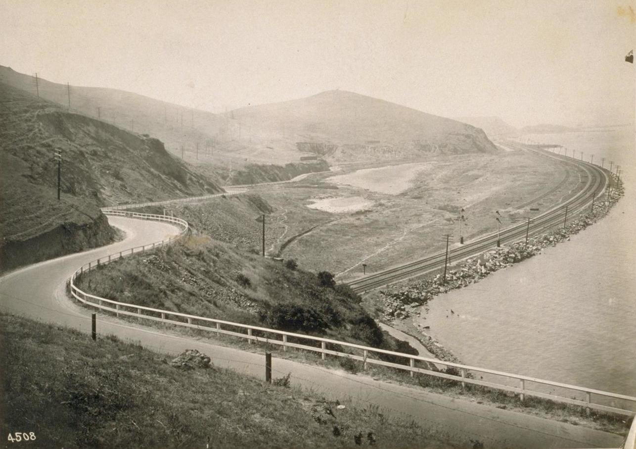 Caption: "Highway over the S.P.R.R. [Southern Pacific Railroad] tunnel on the Bay Shore cutoff." Depicts Bayshore Highway passing over Tunnel 5.